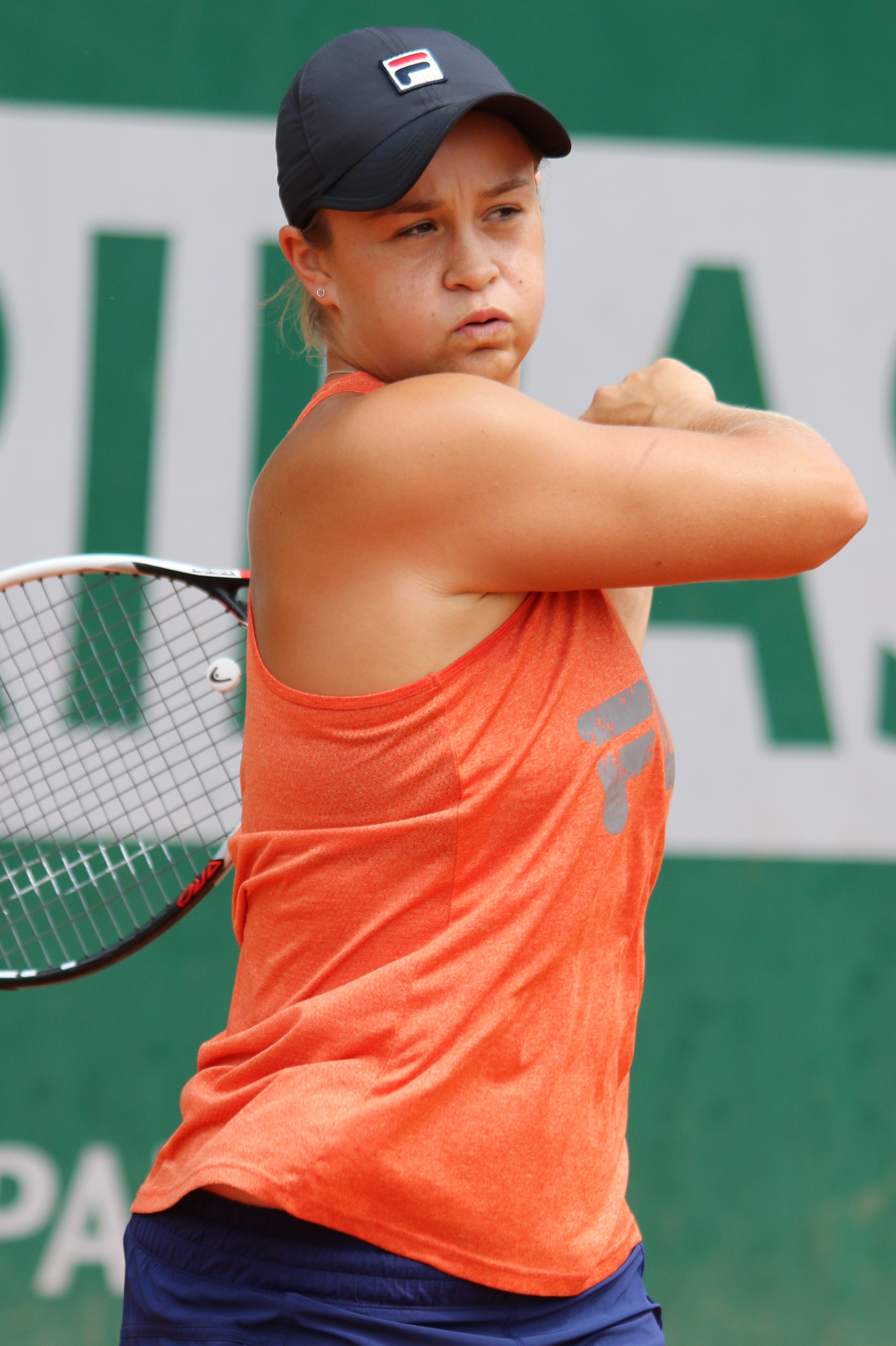 Barty RG18 (17)